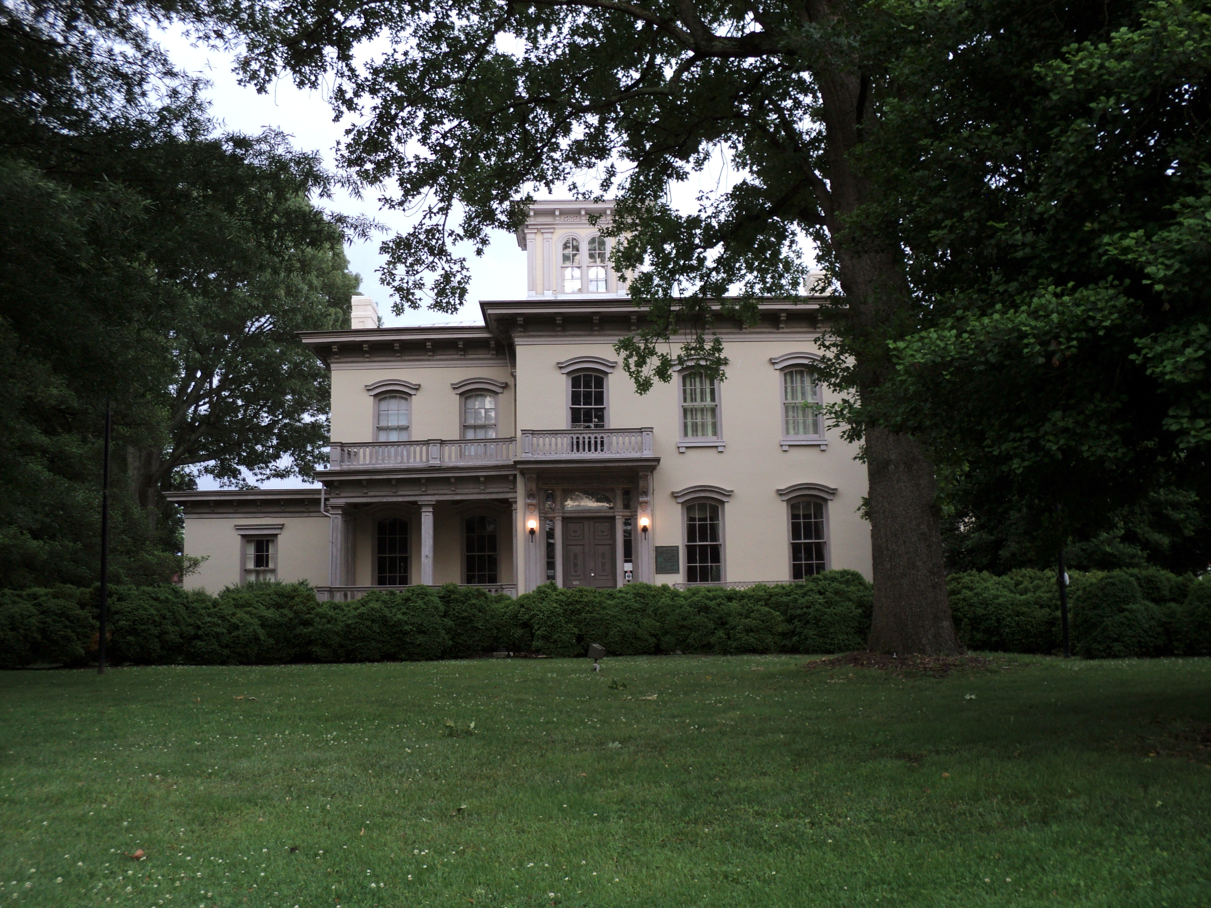 Photograph of the exterior of the William T. Sutherlin Mansion on Millionaires' Row, Danville, Virginia. Built for Major Sutherlin, a tobacco entrepreneur in 1859, the home is now the Danville Museum of Fine Arts & History, and has been designated a Virginia Historic Landmark. It is also listed on the National Register of Historic Places. It is best known as the temporary residence from April 3 to April 10 1865, of Jefferson Davis, President of the Confederate States of America. Davis made the home his residence after fleeing the Confederate capitol at Richmond, Virginia.[1]